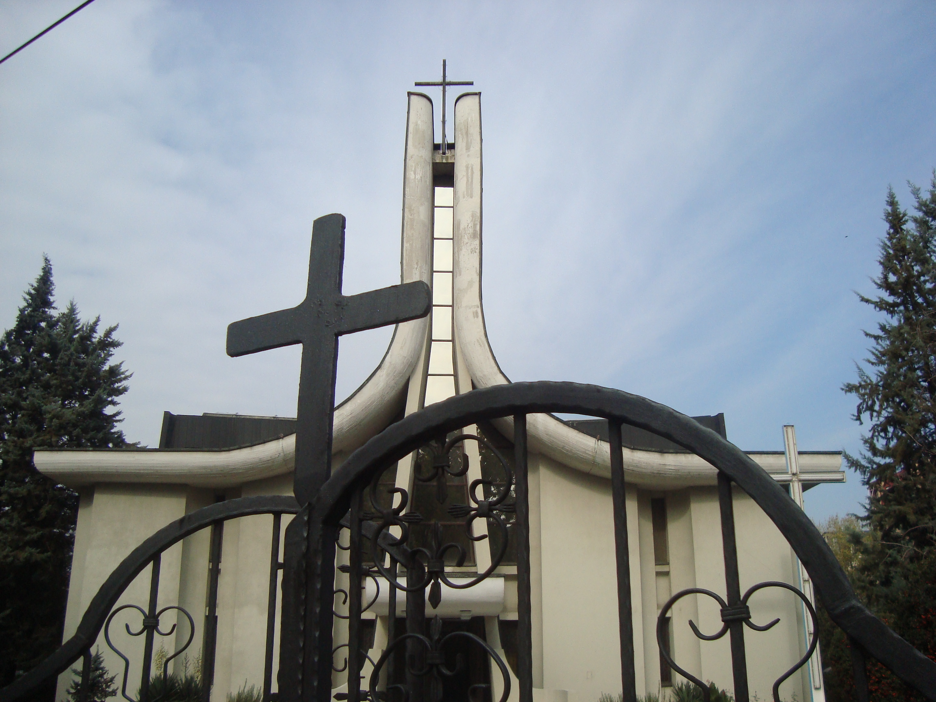 The Catholic Church in Skopje, Macedonia.